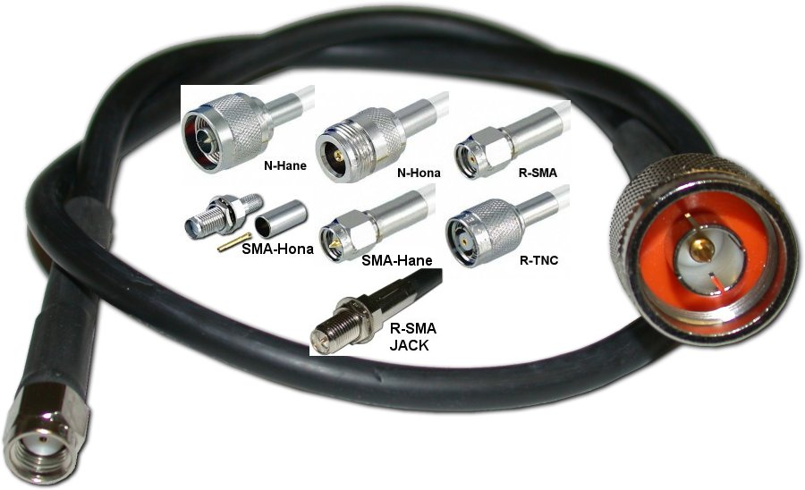 Coaxial connectors